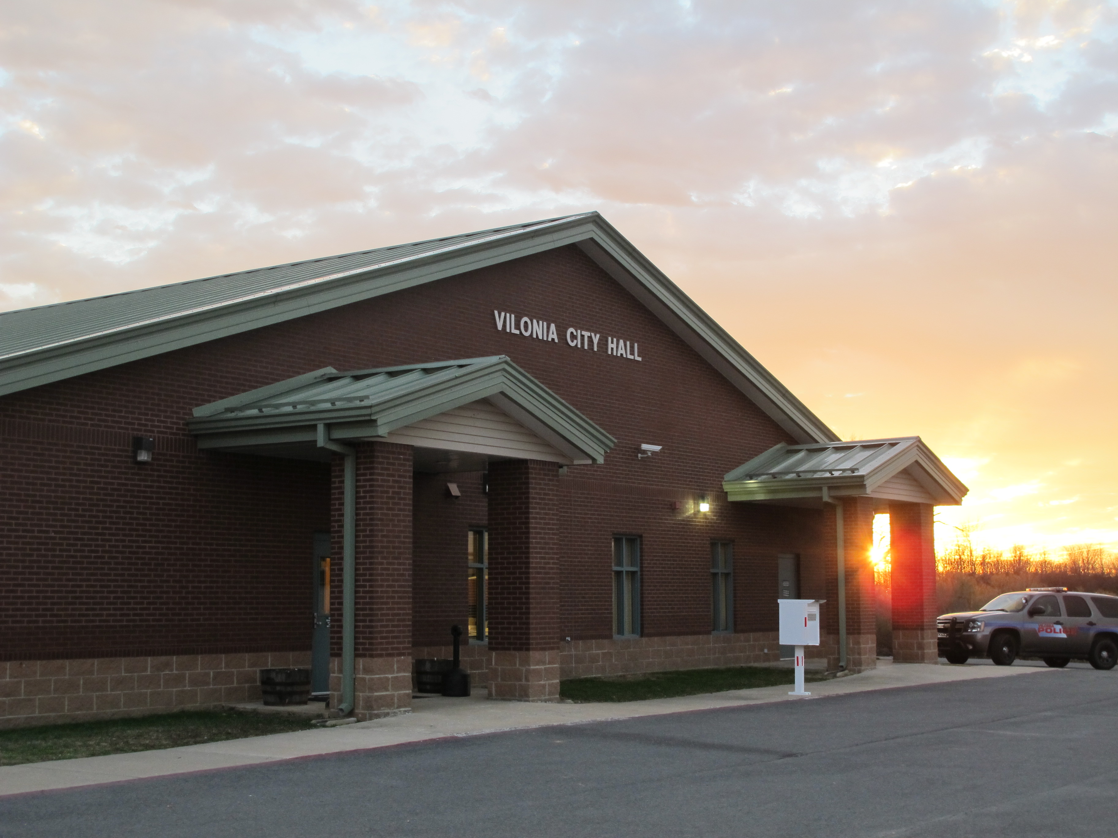 Vilonia, Arkansas, City Hall, Side doors